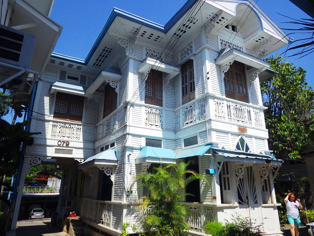 exterior